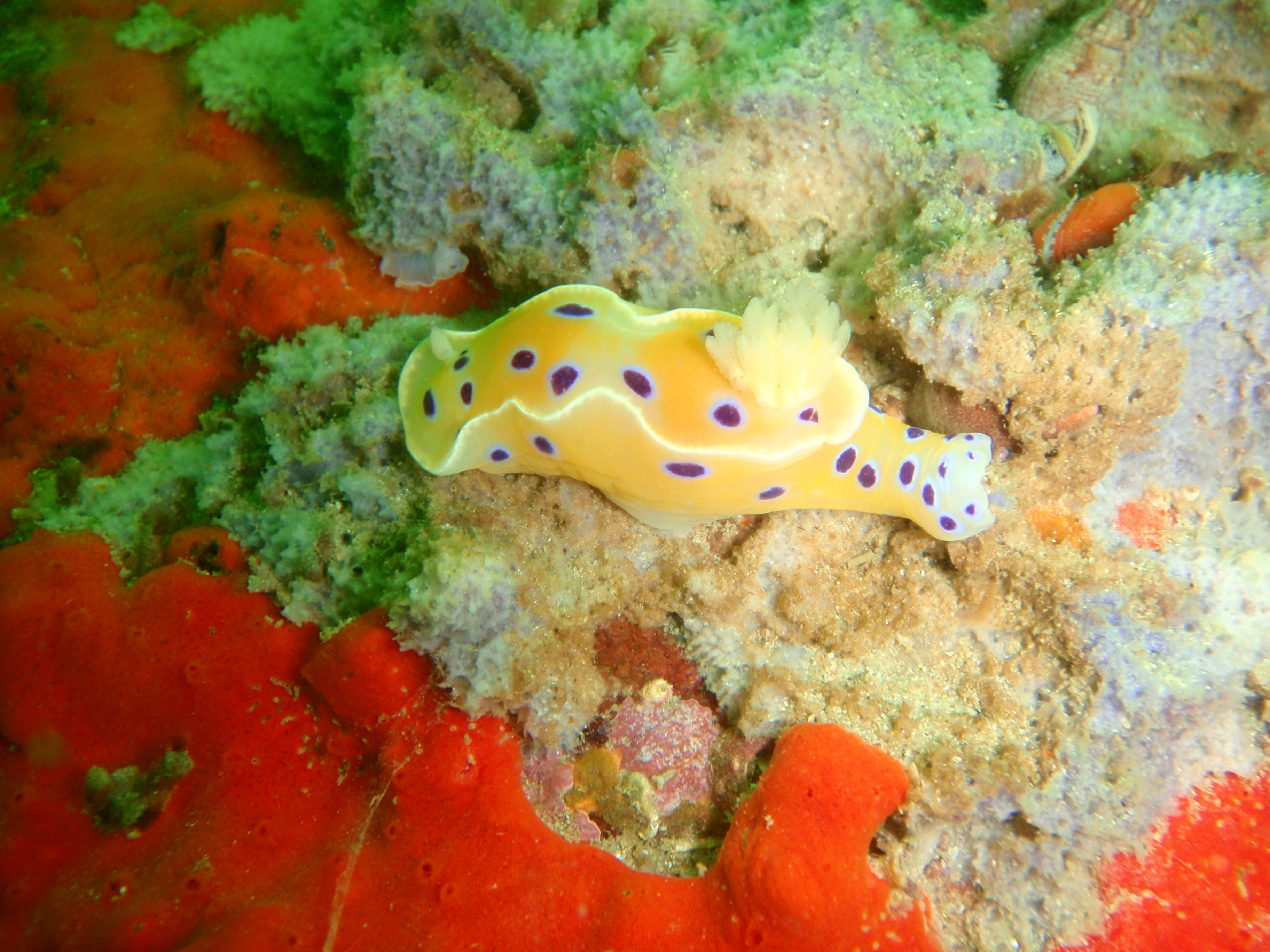 Ink spot nudibranch on sponges at Pinnacle, south of Gordon's Bay on the east side of False Bay